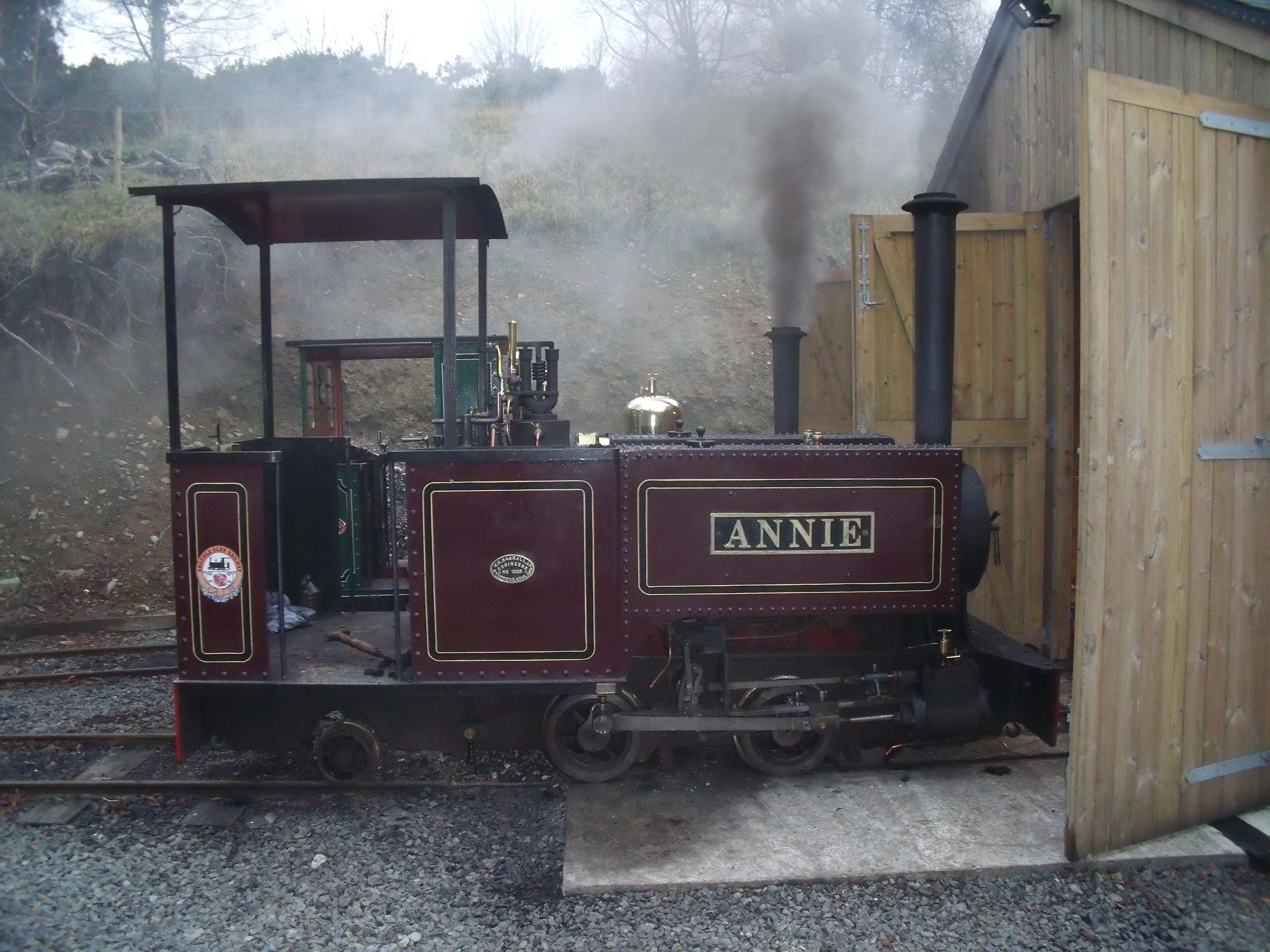 "Annie" on shed at Lhen Coan on the Groudle Glen Railway.